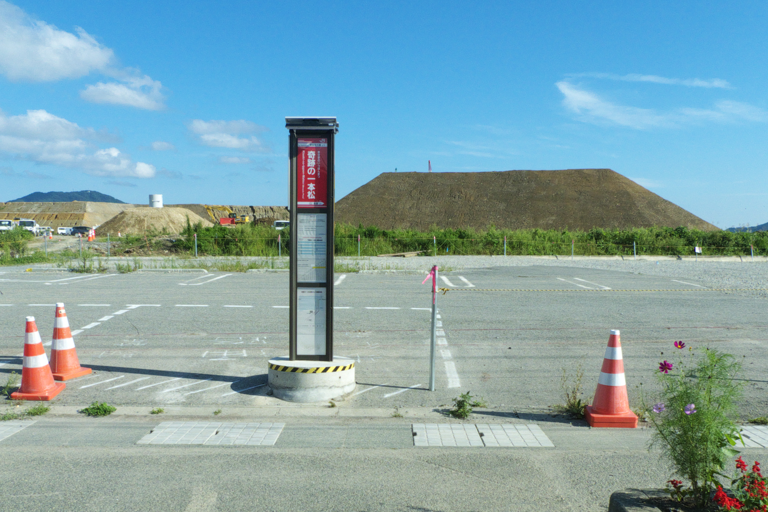 JR East Ofunato Line BRT Kiseki no Ipponmatsu (Miracle Pine) Station